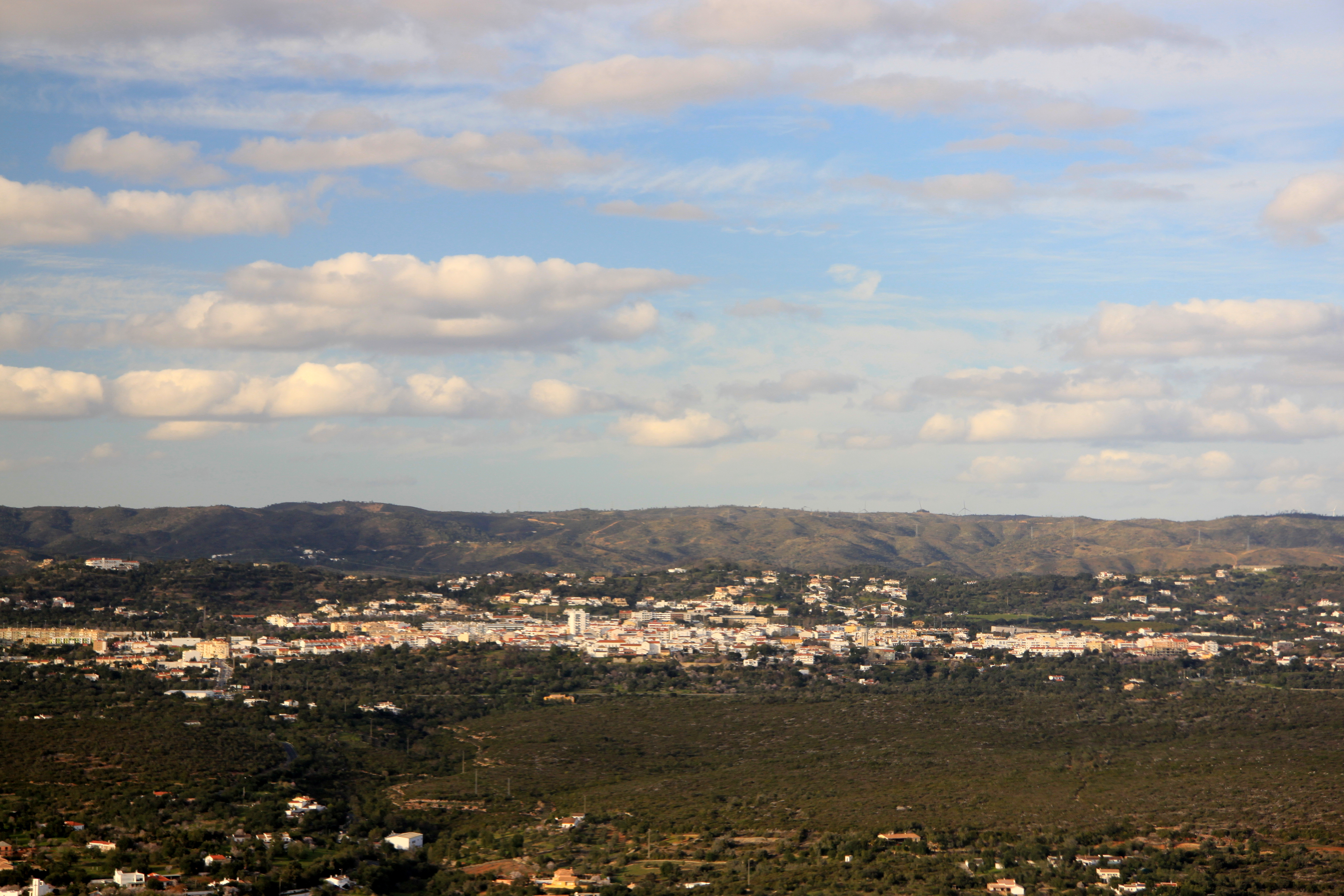 Sao Bras de Alportel - viewed from hilltop